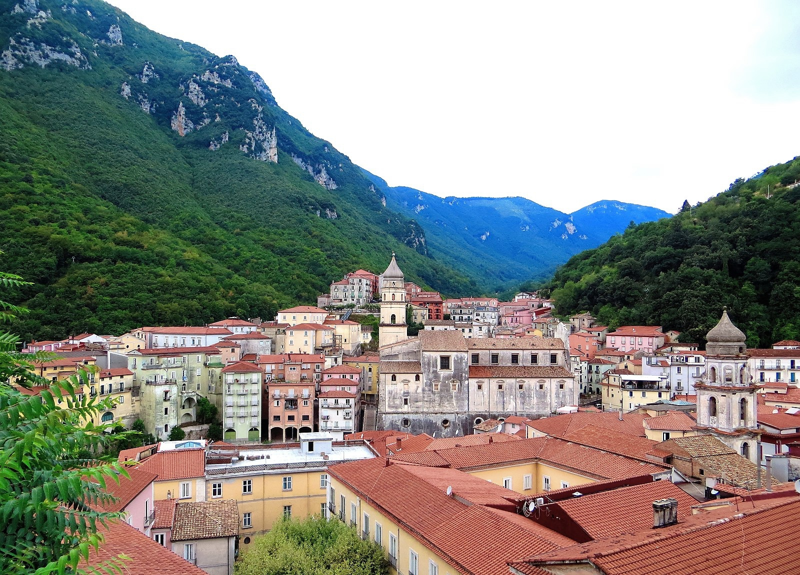 Skyline of Campagna